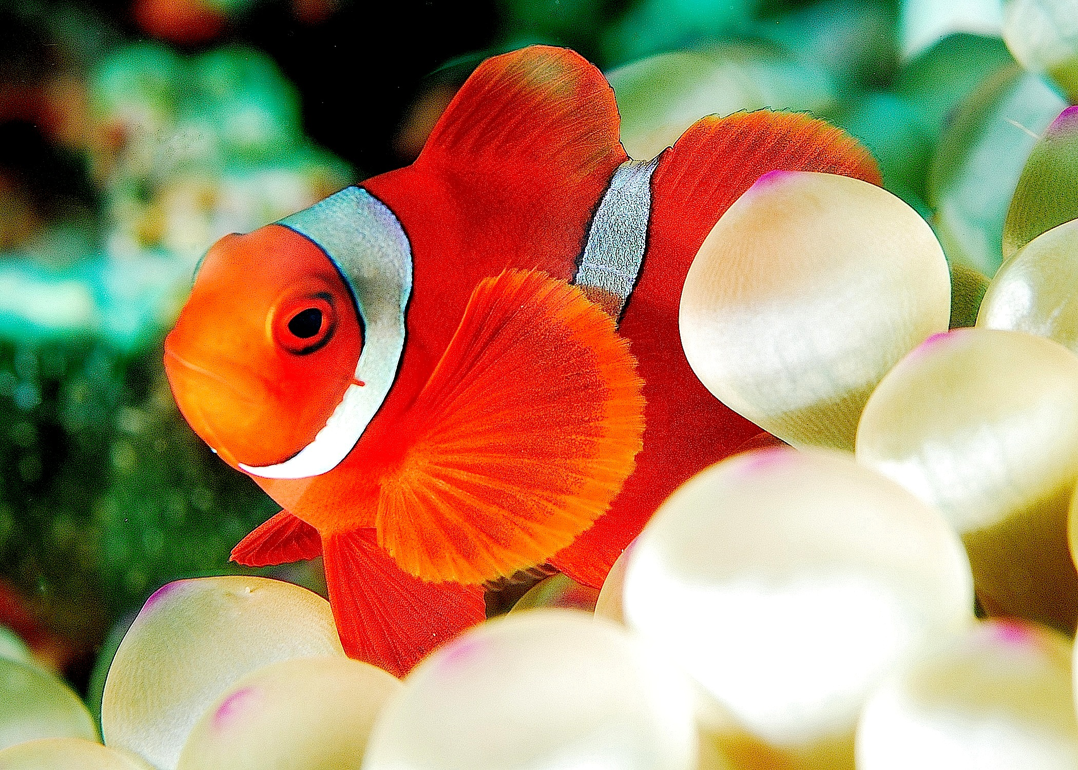 This is another kind of anemonefish. A little bit different with clown anemonefish (Nemo), He has smaller head and mouth.